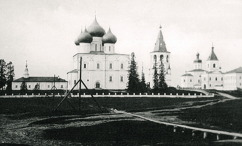 Kholmogory Cathedral